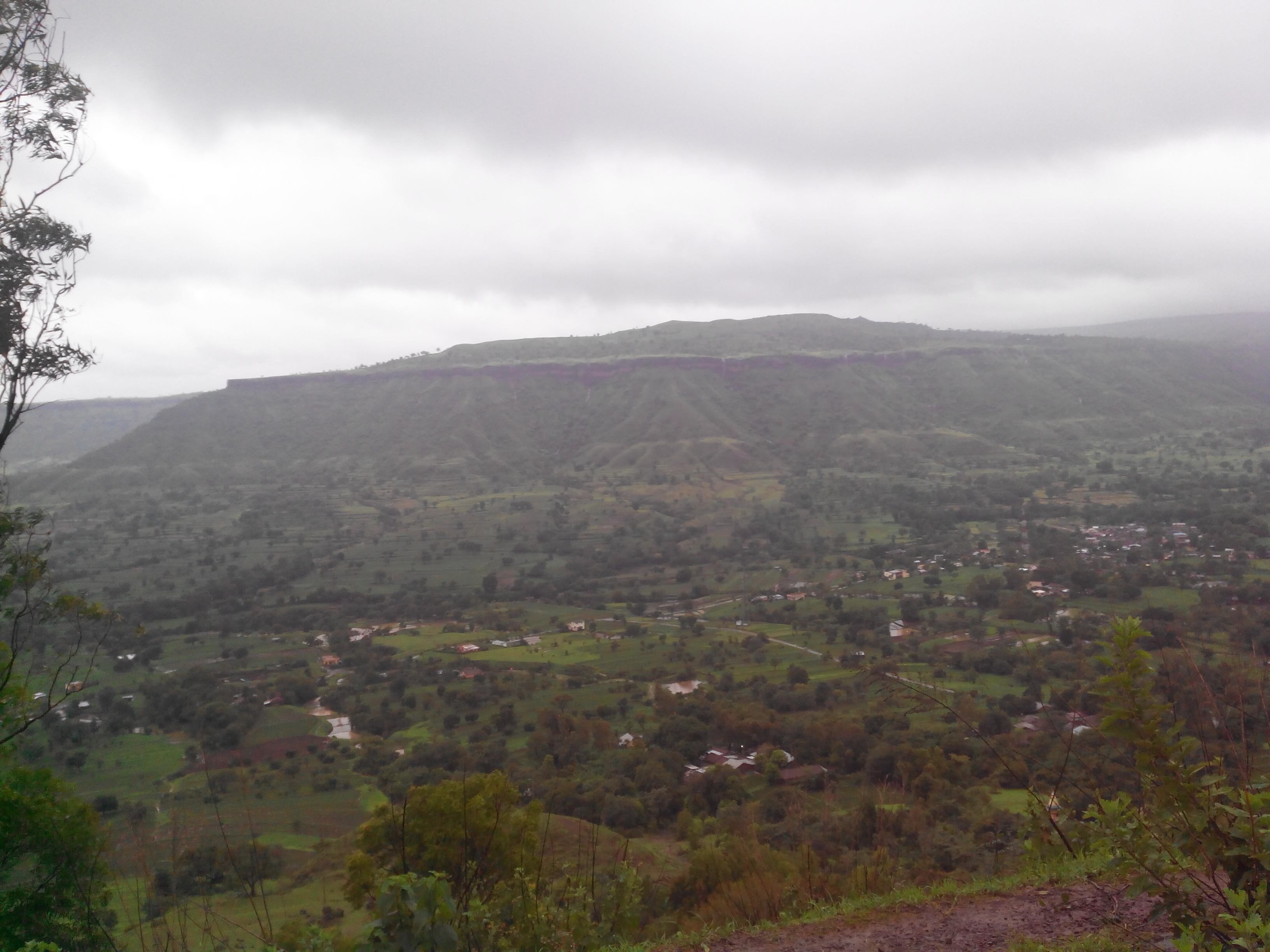 Near Kas , July 2014